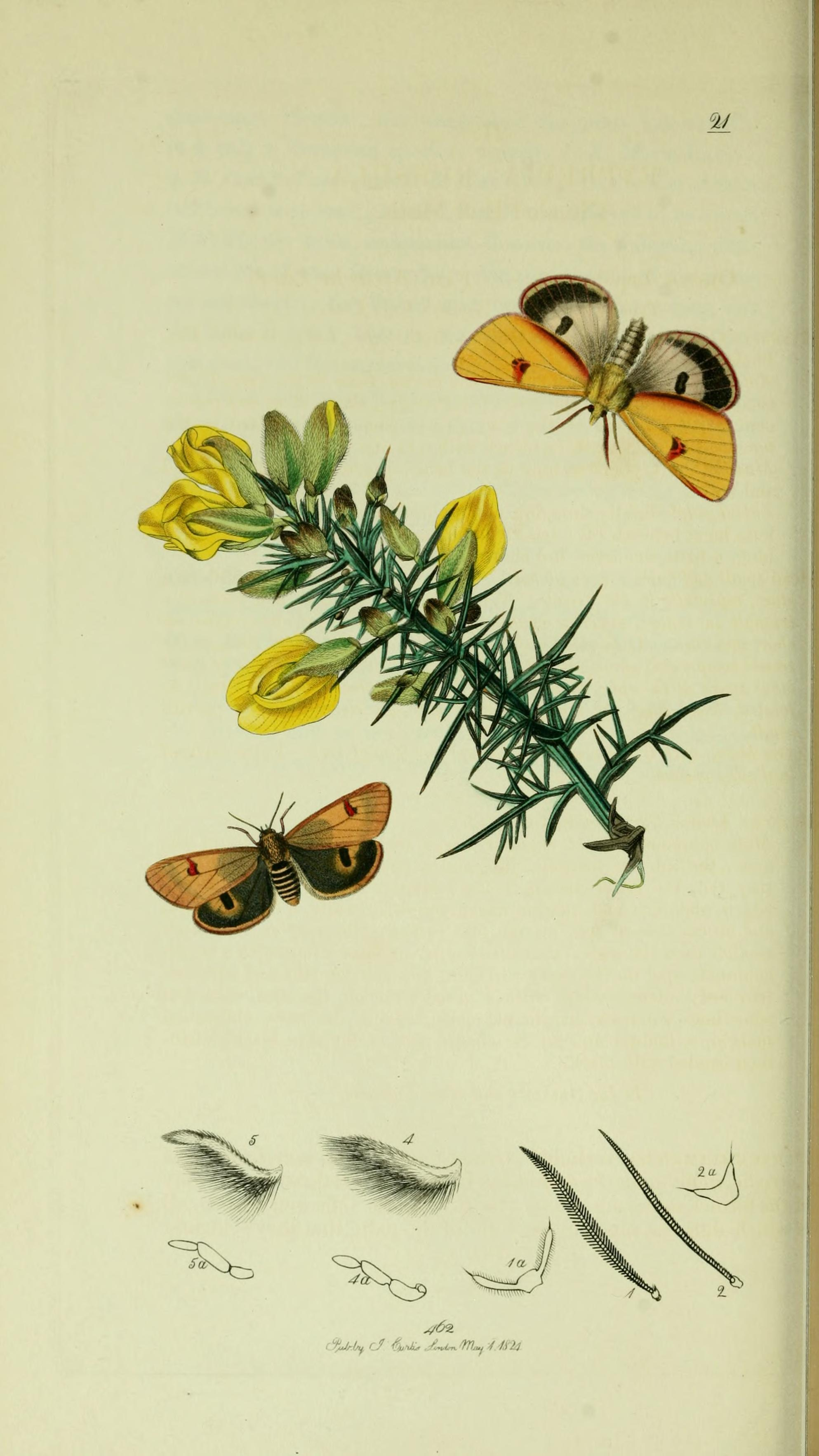 An illustration from British Entomology by John Curtis. Eyprepia russula or Diacrisia sannio (~russula: Clouded Buff).